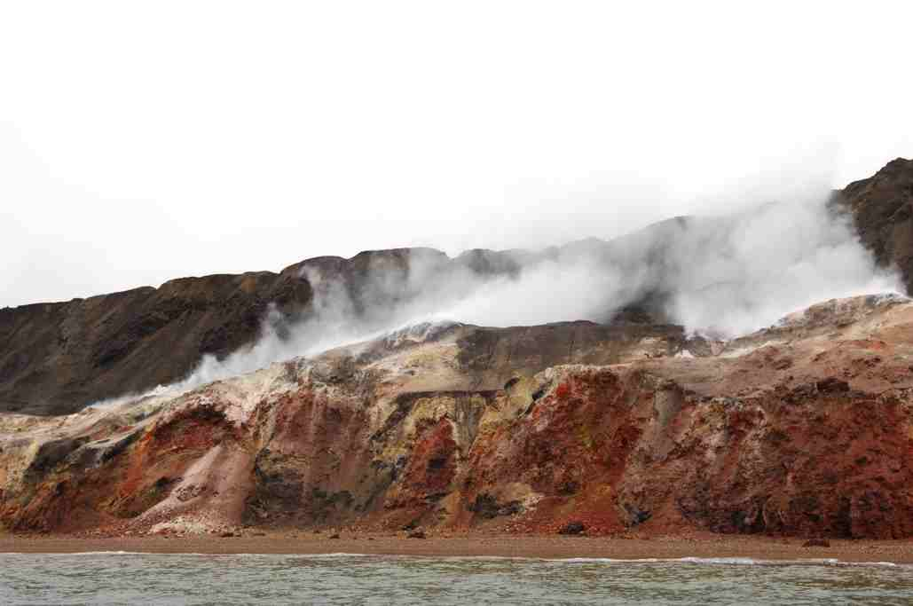 Smoking Hills southeast of Cape Bathurst, NT (Canada)